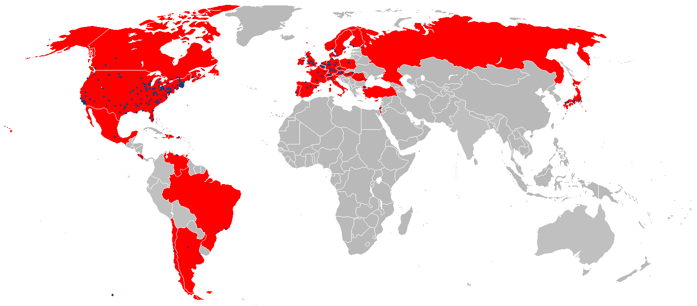 Map of locations Aerosmith had played in 1993-1995